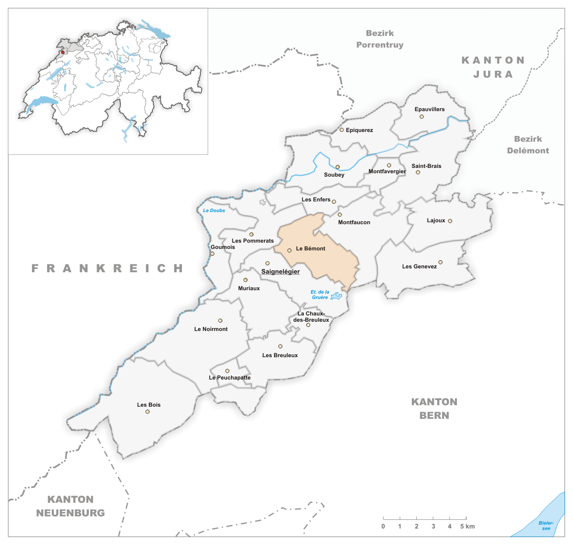 Municipality Le Bémont